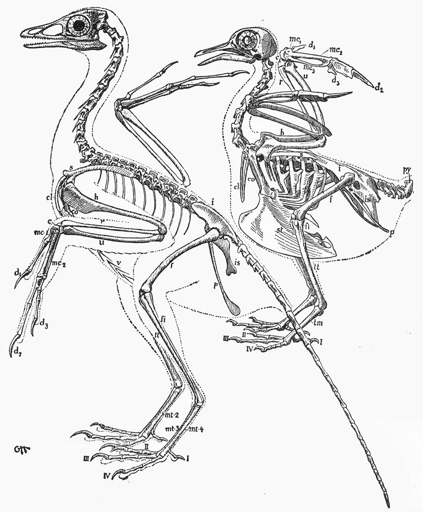 Gerhard Heilmann's skeletal illustrations of the Berlin Archaeopteryx specimen, then known as Archaeornis, compared to the skeleton of a modern pigeon.